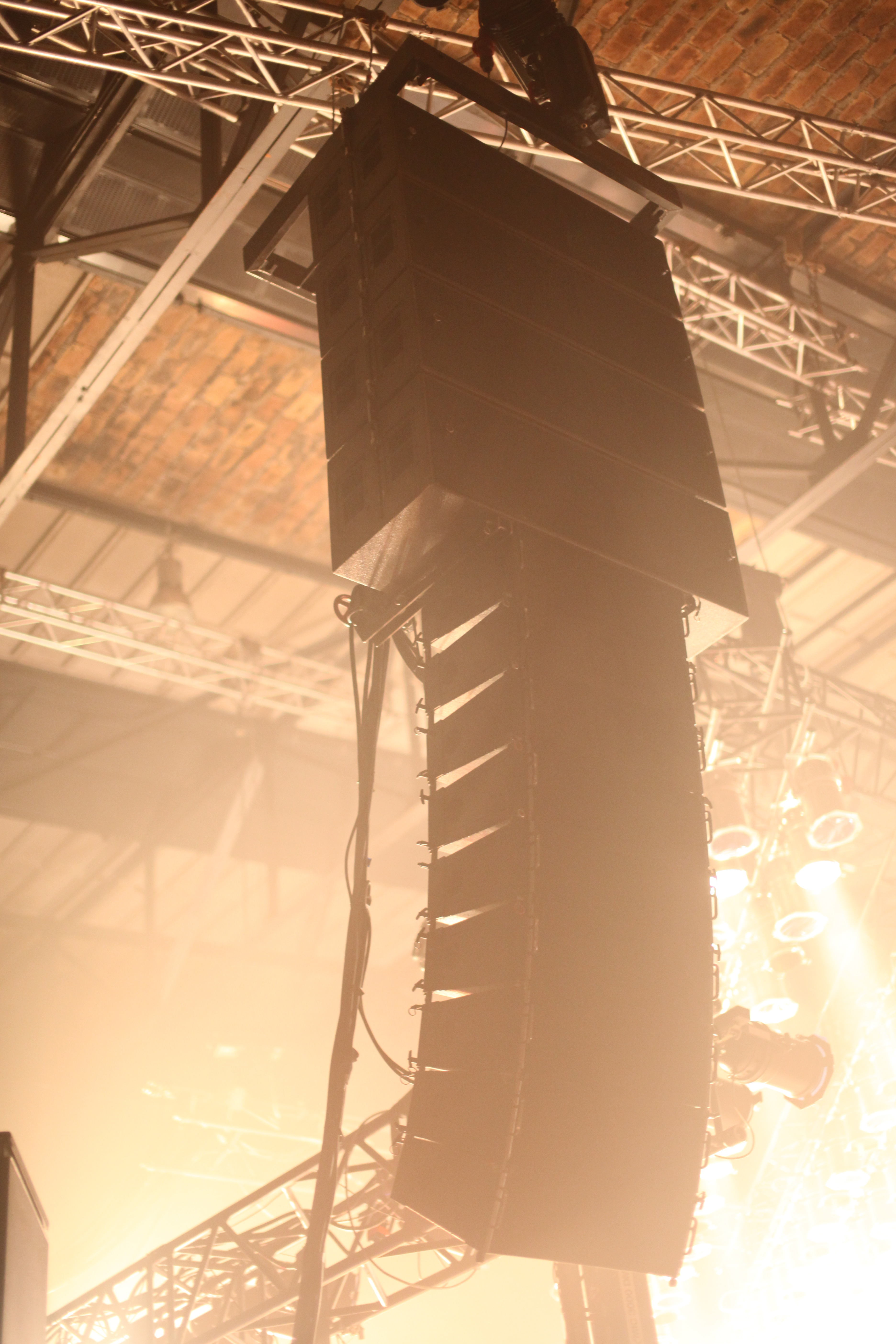 JBL VerTec: 9 x 4889 & 4 x 4880a subs, I would guess NINE INCH NAILS live @ Berlin